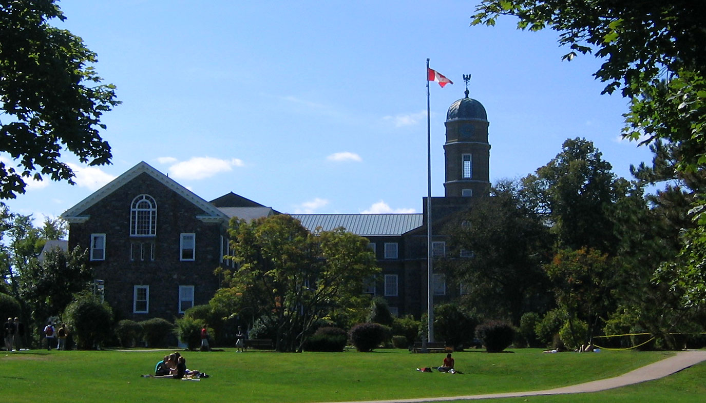 View the quad in front of Dalhousie University main entrance